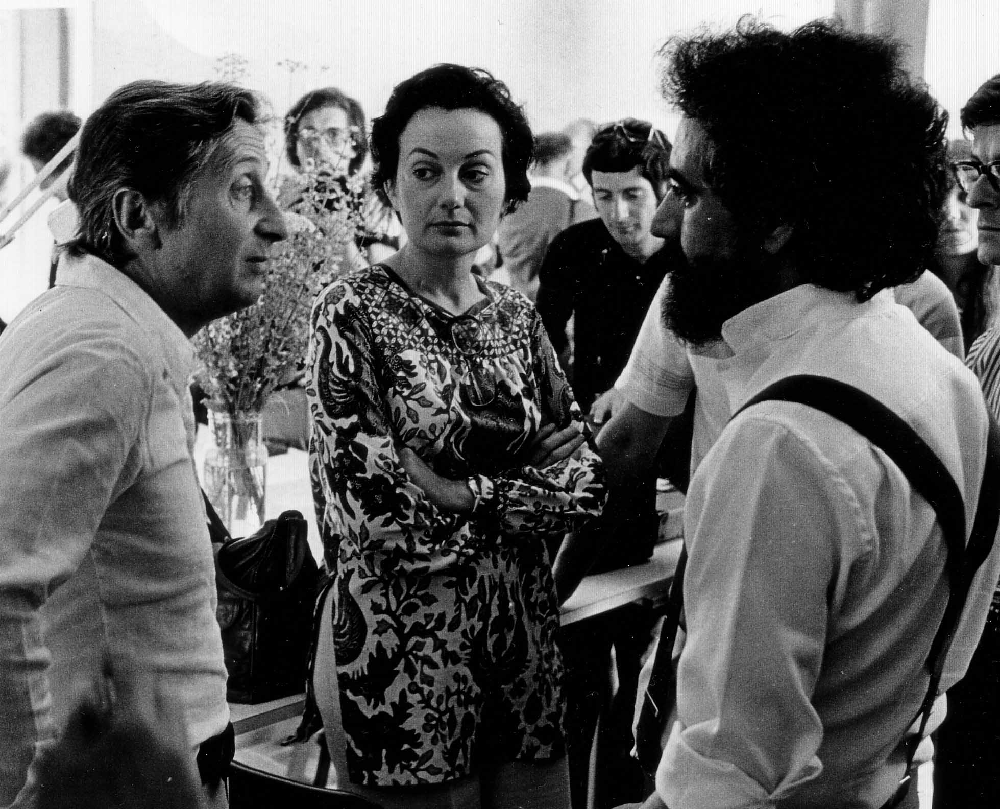 French photographers (from left) Jean-Pierre Sudre, Hélène Théret, Georges Tourdjman, during a talk. The photograph was taken during '6èmes Rencontres Internationales de la Photographie', Arles (Bouches-du-Rhône, France), 1975, at Sudre's house. Nikon 35mm lens.